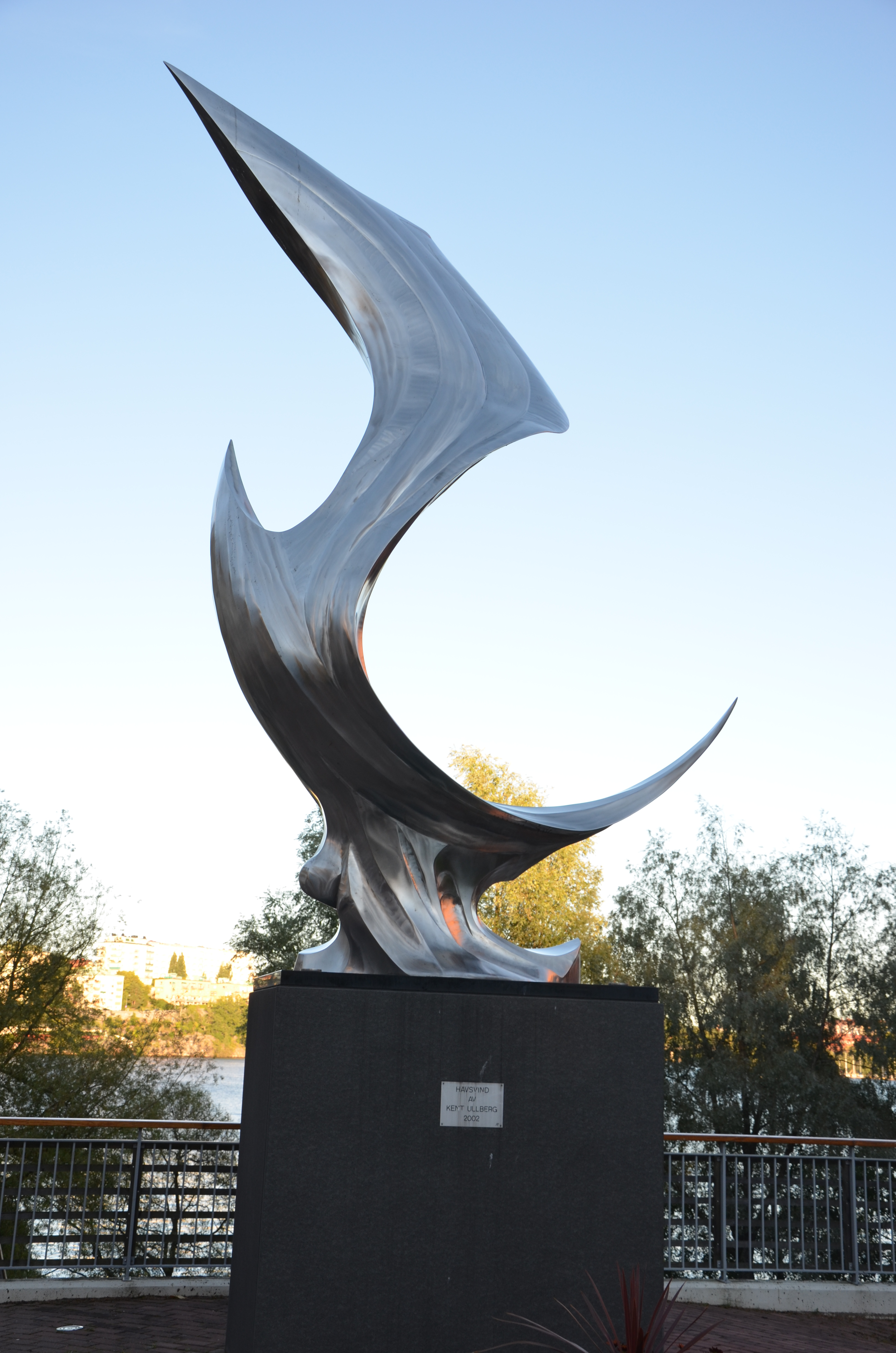 Havsvind (Sea wind), by Kent Ullberg, Alvik, Stockholm, Sweden